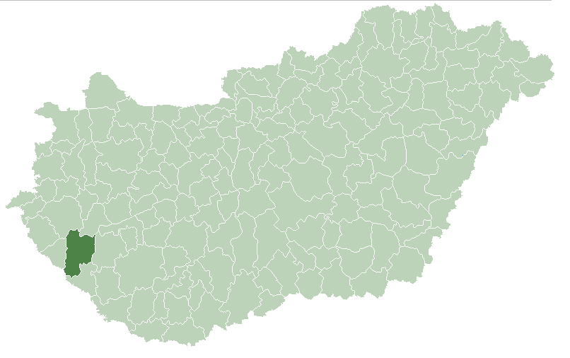 Subregion Nagykanizsa